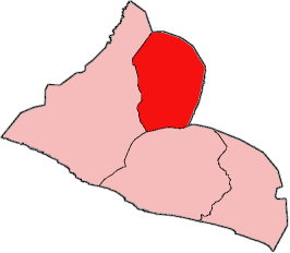 Map of Grand Kru County, Liberia showing Buah District; created with the GIMP. Made by User:Acntx.